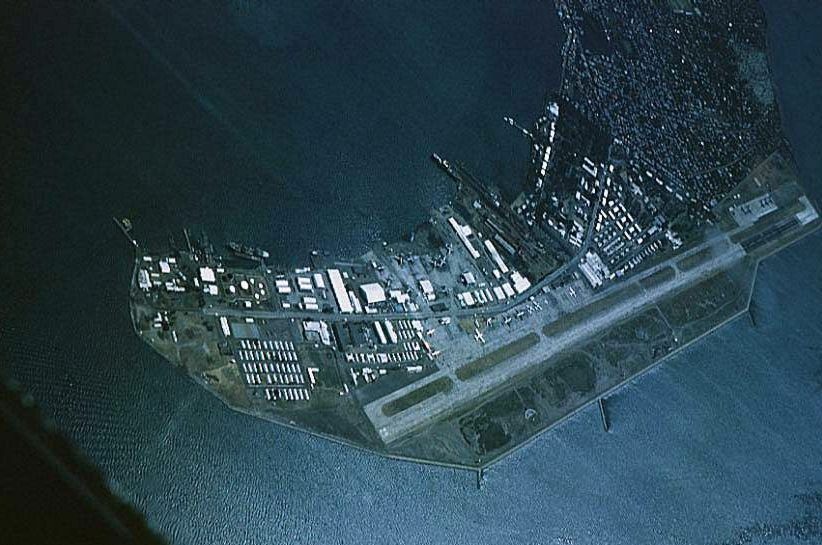 Overhead aerial view of the U.S. Naval Station Sangley Point, Philippines, circa 1963-1966.